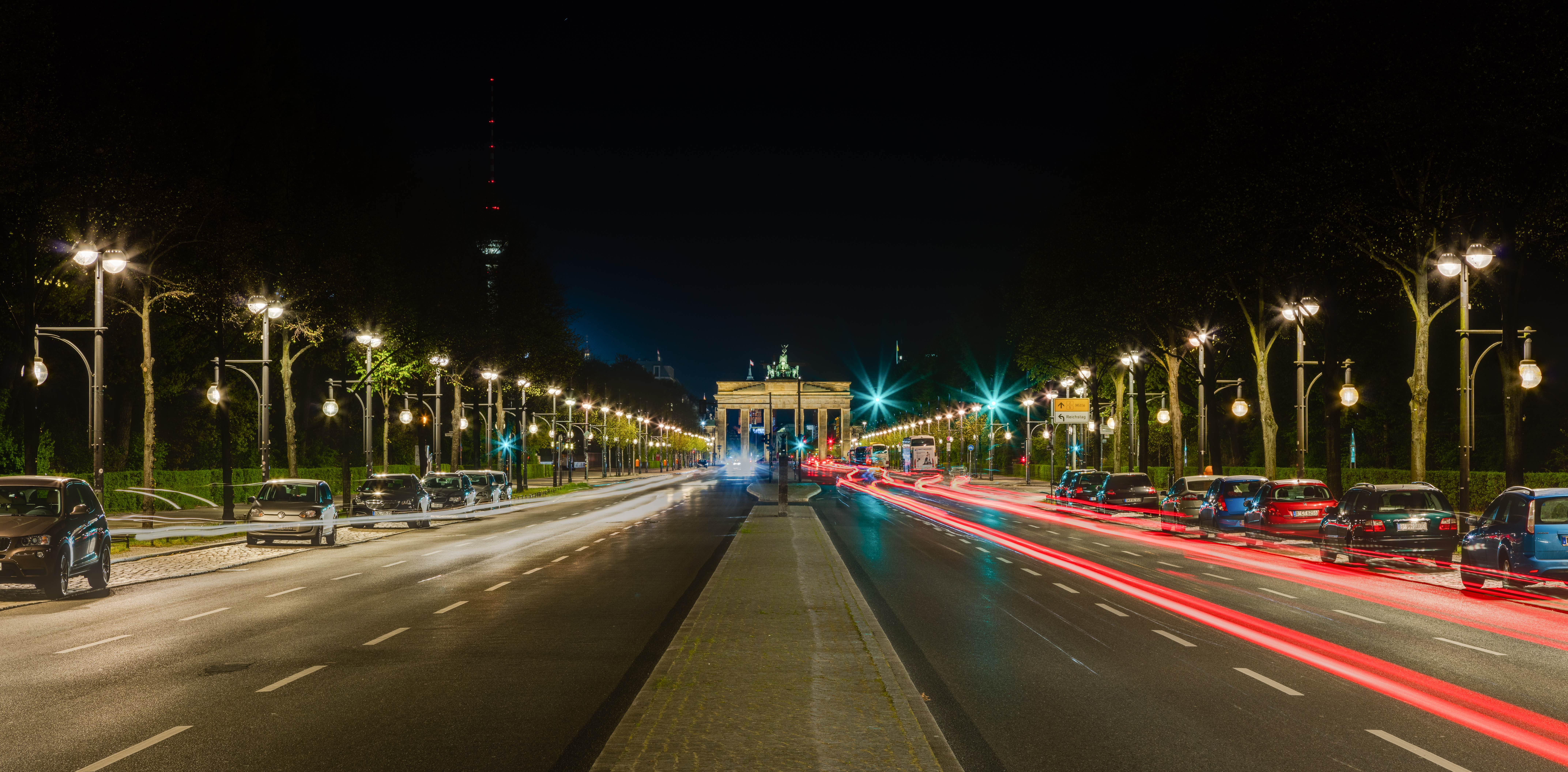 June 17th Street, Berlin, Germany